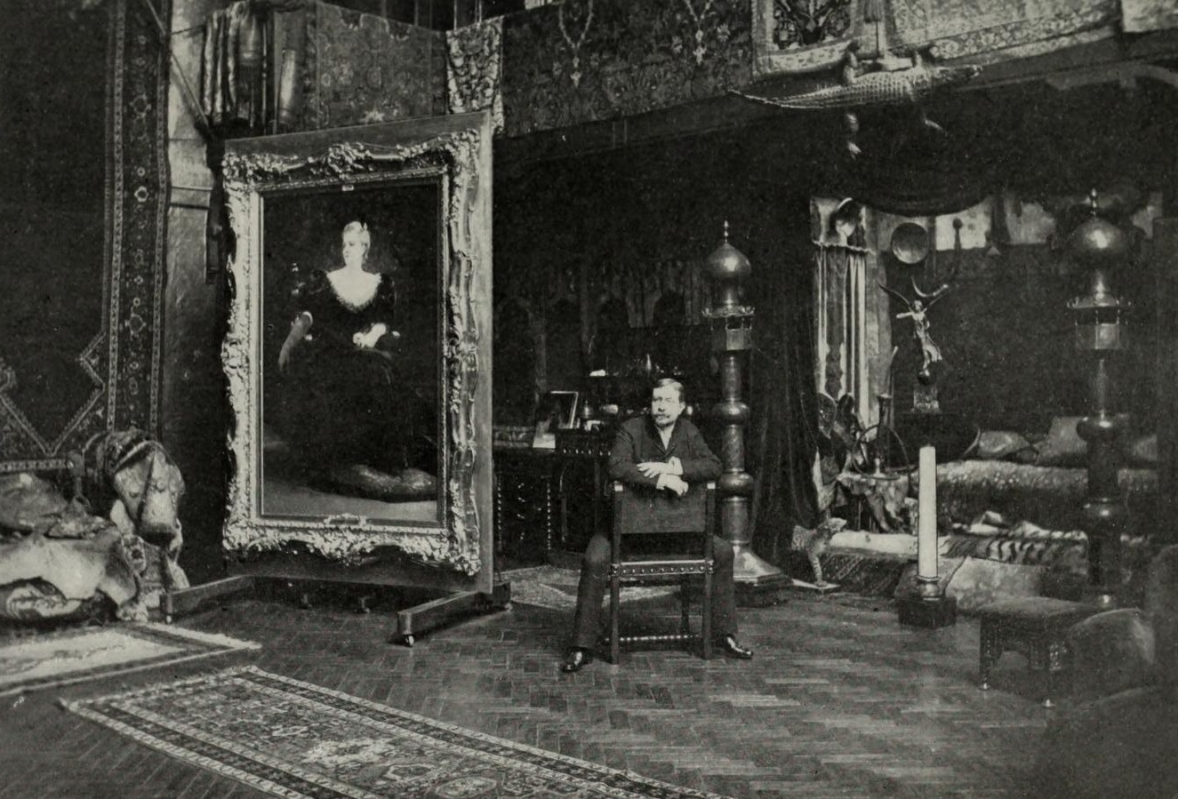 Benjamin-Constant